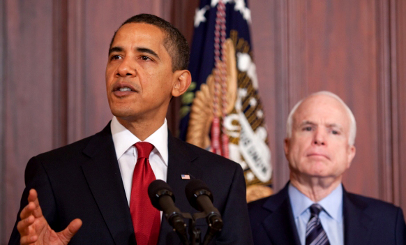 President Barack Obama and Senator John McCain in a press conference, taking place on March 4, 2009.